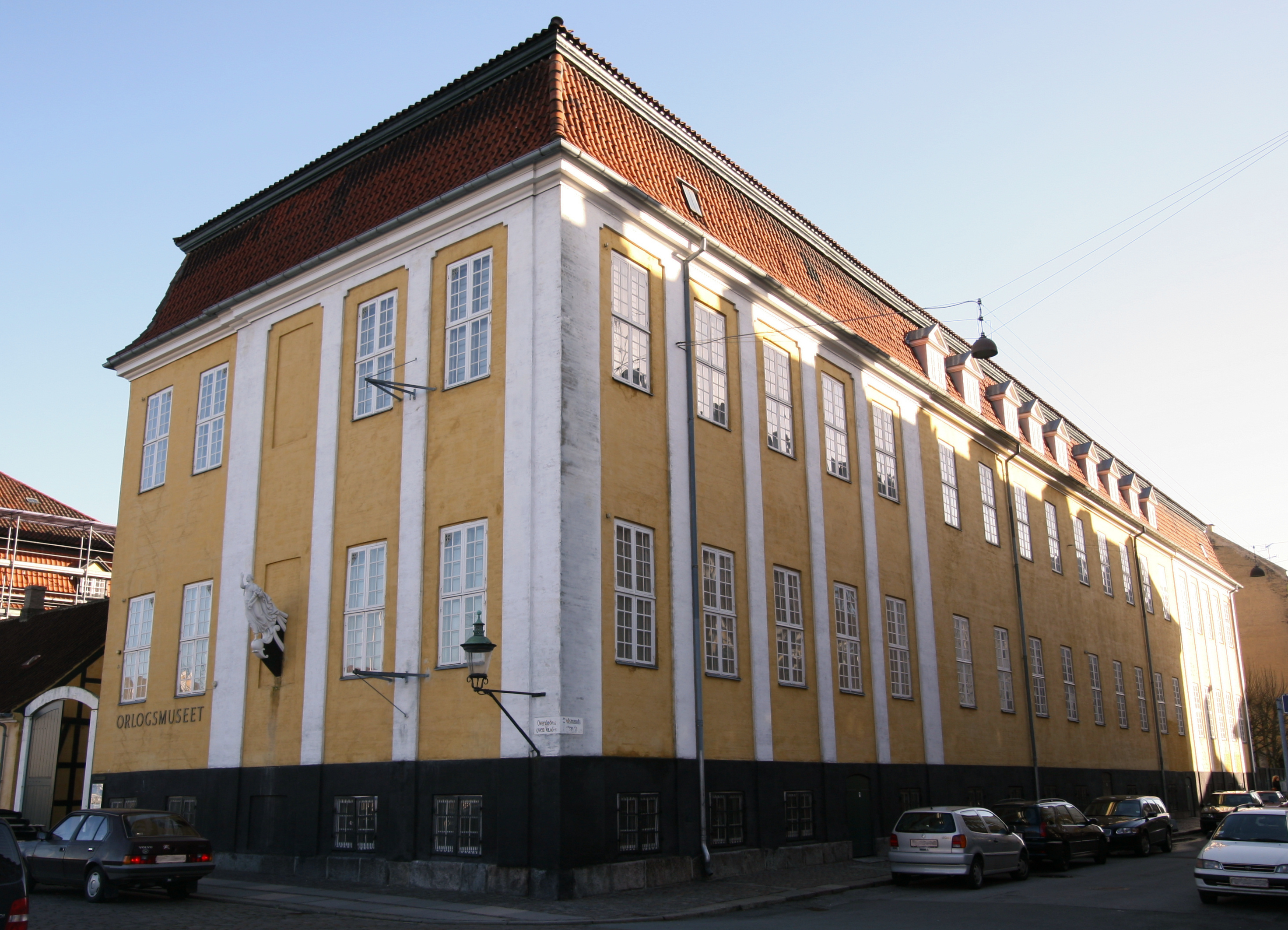 Orlogsmuseet, The Royal Danish Naval Museum in Copenhagen. The Royal Danish Naval Museum. Udstillingsbygningen.